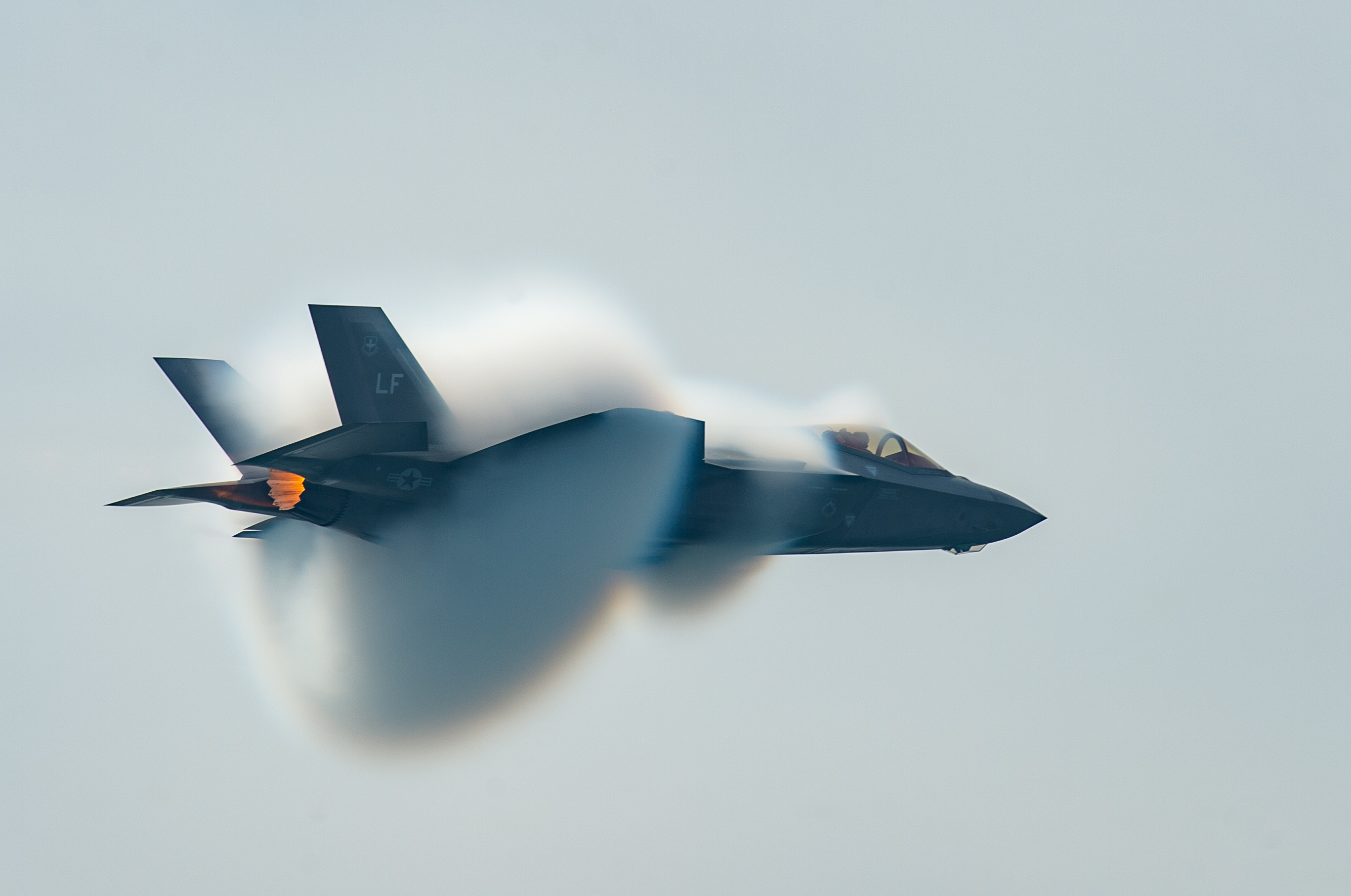 Capt. Andrew “Dojo” Olson, F-35 Heritage Flight Team pilot and commander, performs a high-speed pass during the Canadian International Air Show in Toronto, Sept. 1, 2018.